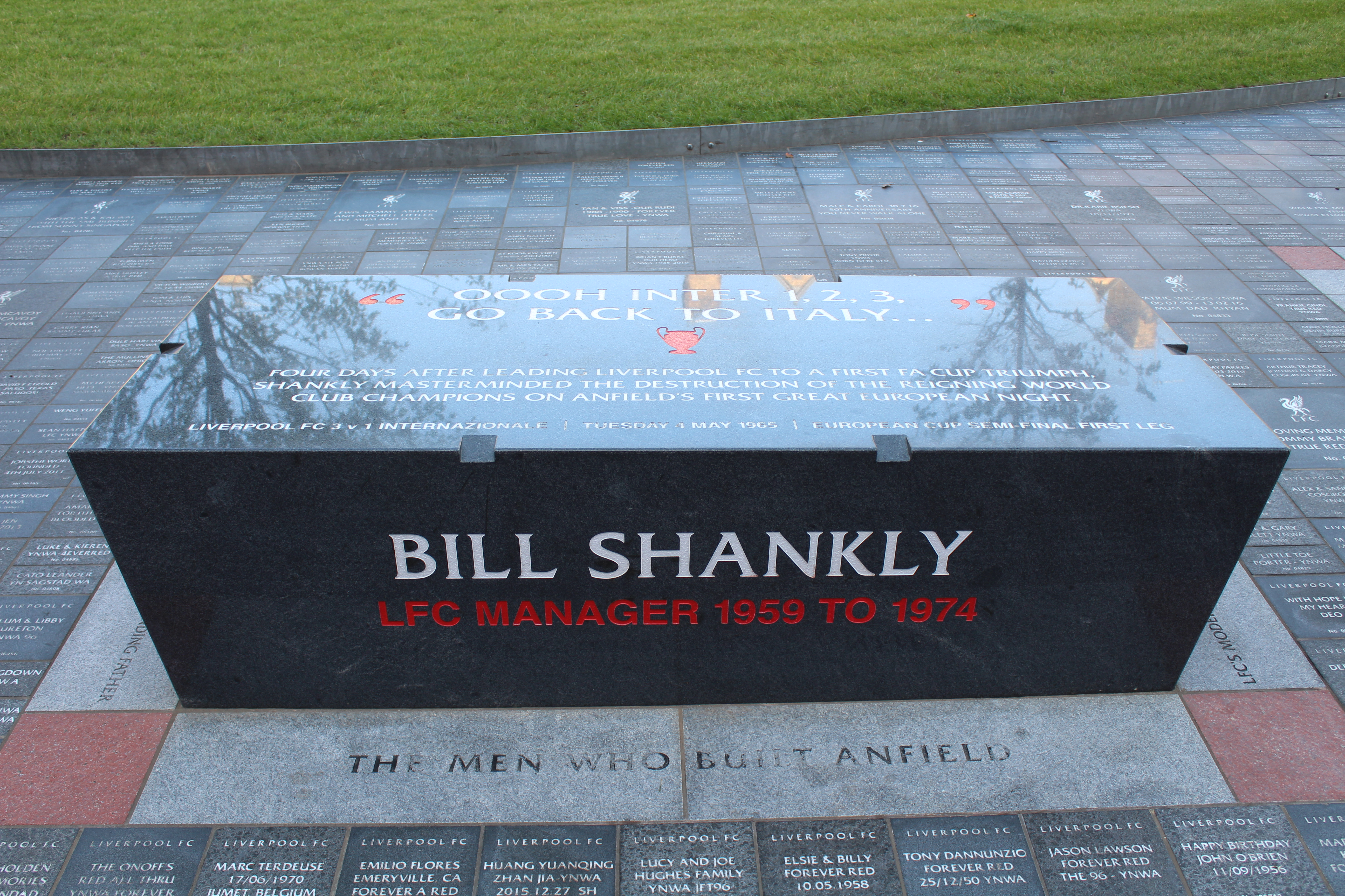 Plinth to Bill Shankly, legendary Liverpool manager, on 96 Avenue.